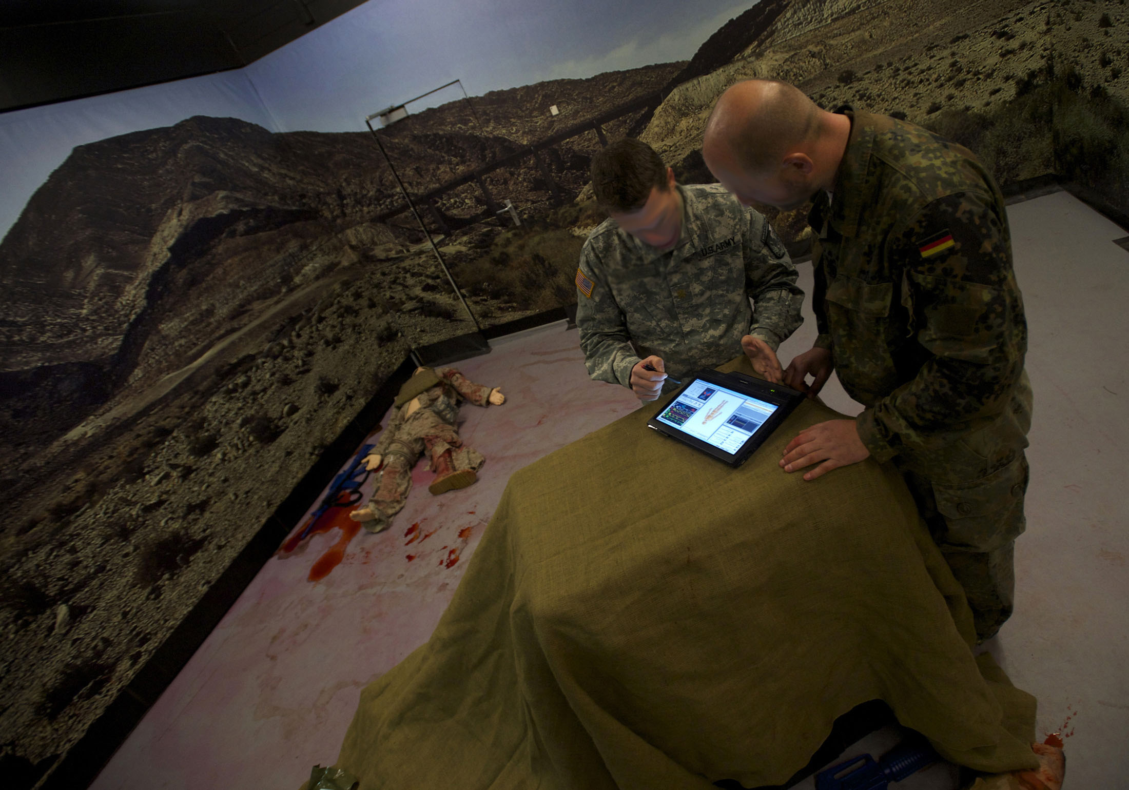 An NSHQ instructor shows a SOF medic the proper procedure for controlling a mannequin. The SimMan mannequin is capable of speech, heart rate control, respiration and a host of other controls to make it a realistic trainer.